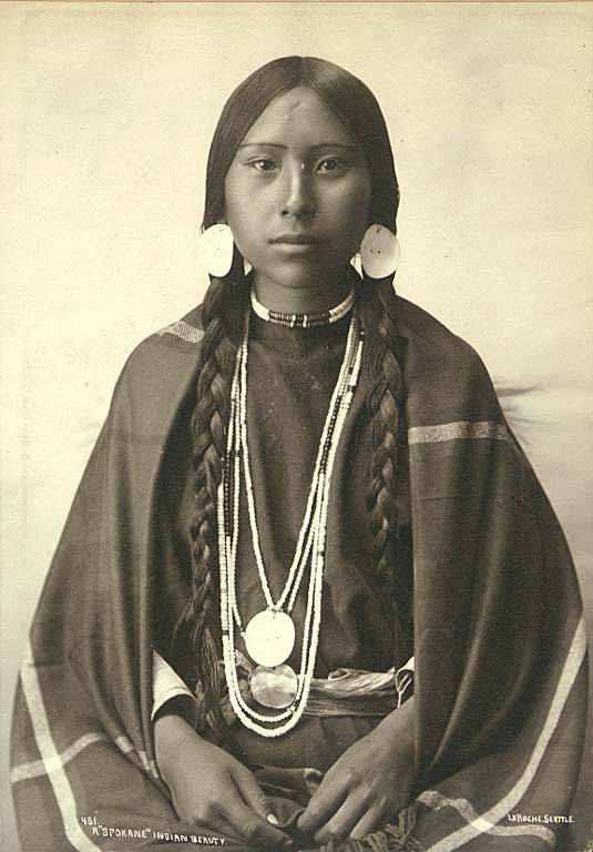 Studio portrait of a young Spokane woman, ca. 1894-1899. She is seated, wearing a blanket around her shoulders, wearing shell and bead earrings and neck Caption on image: "A "Spokane" Indian beauty" Studio portrait. Subjects (LCSH): Portraits--Washington (State); Spokane Indians--Clothing & dress; Spokane Indians--Women